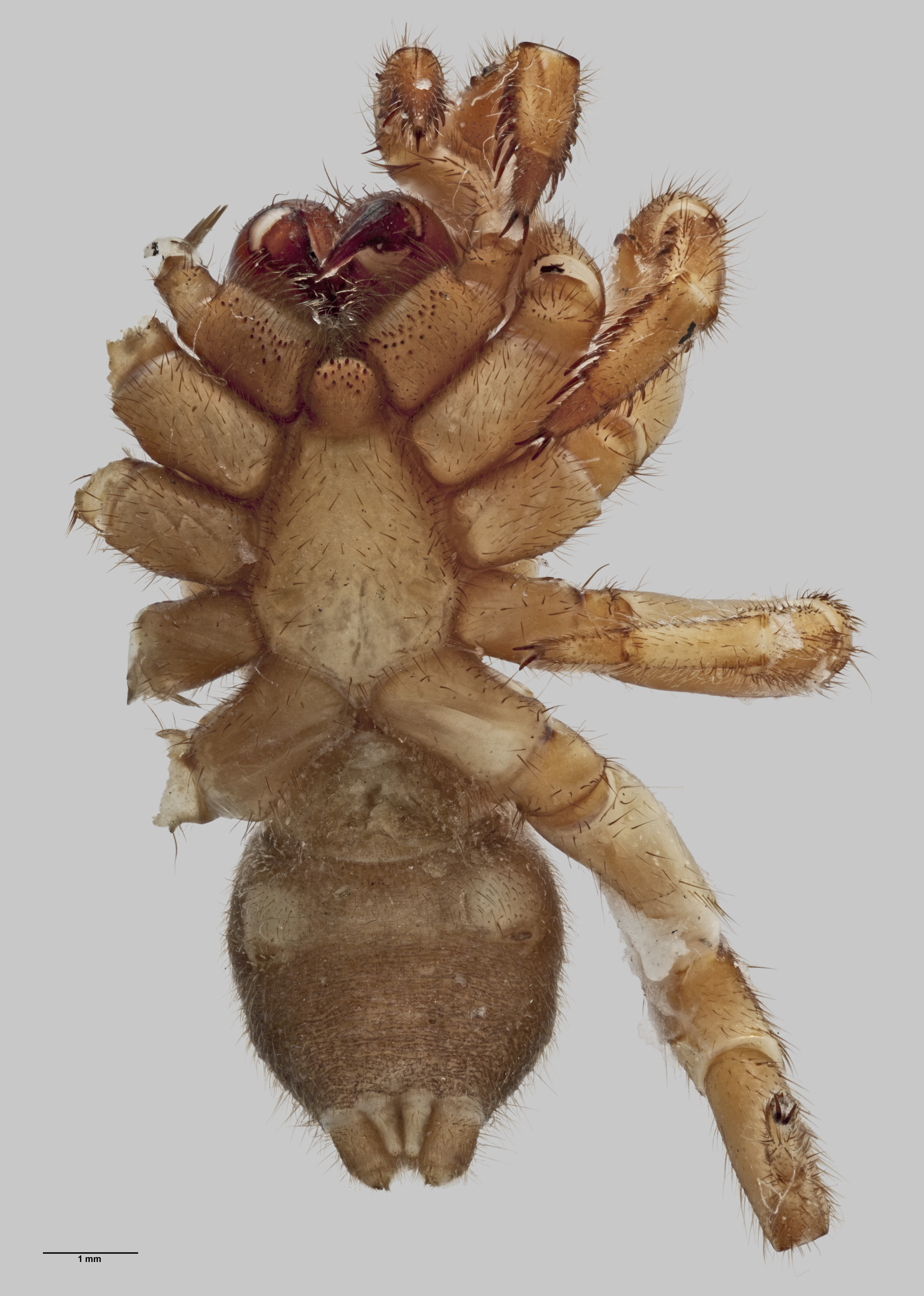 Female holotype specimen of Migas insularis AMNZ5060 held at the Auckland War Memorial Museum.